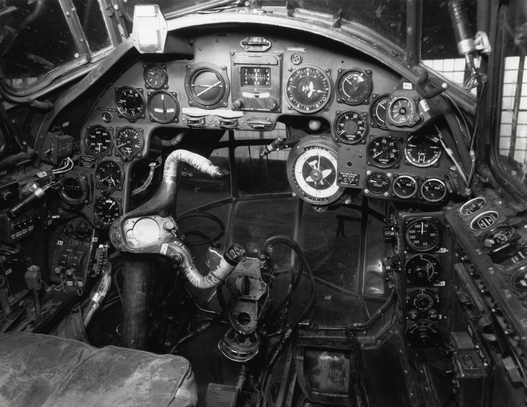 A Junkers Ju 88D cockpit.